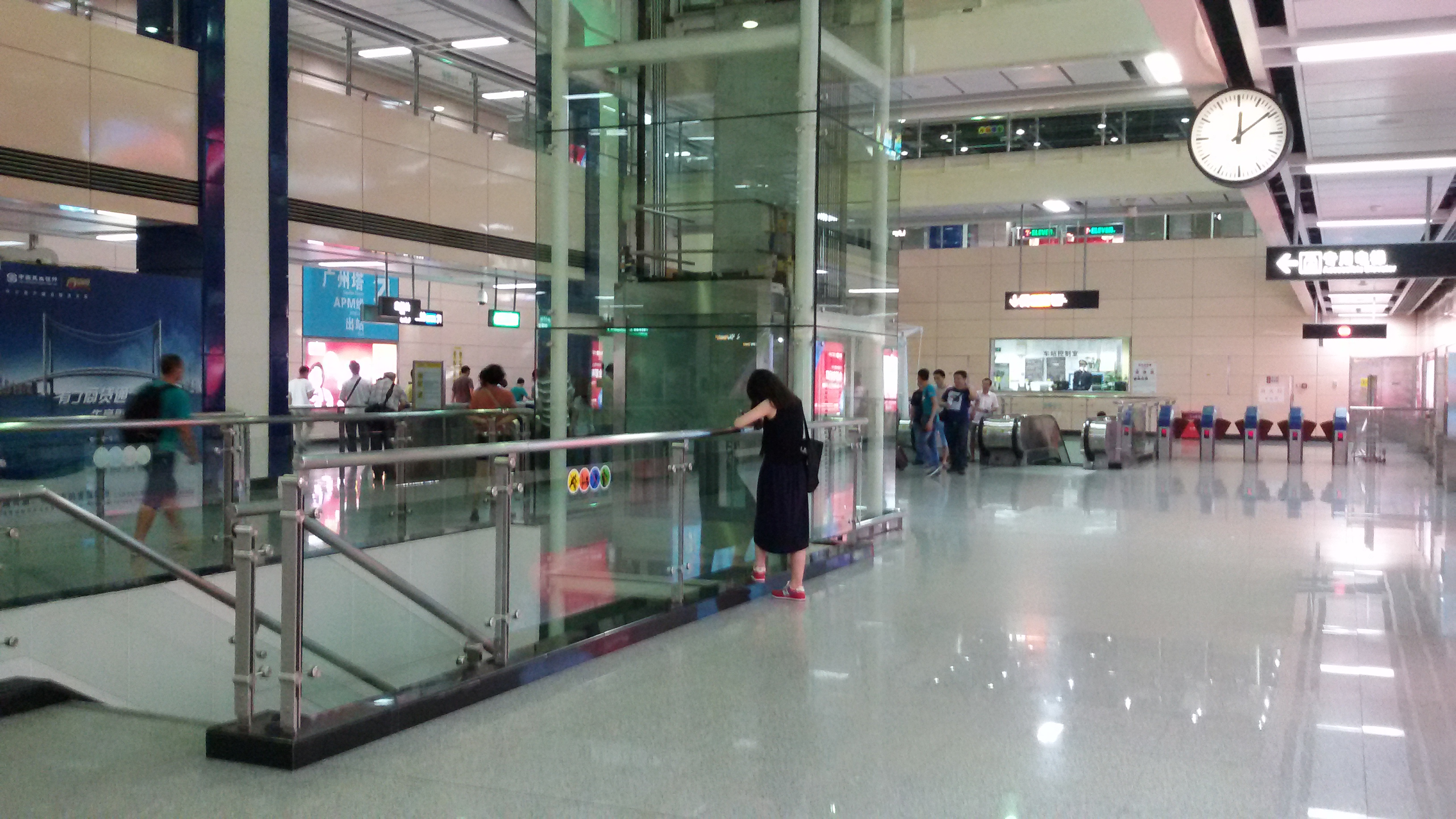 Concourse for Canton Tower Station in Line 3, Guangzhou Metro 粵語: 廣州塔站嘅3號綫站廳